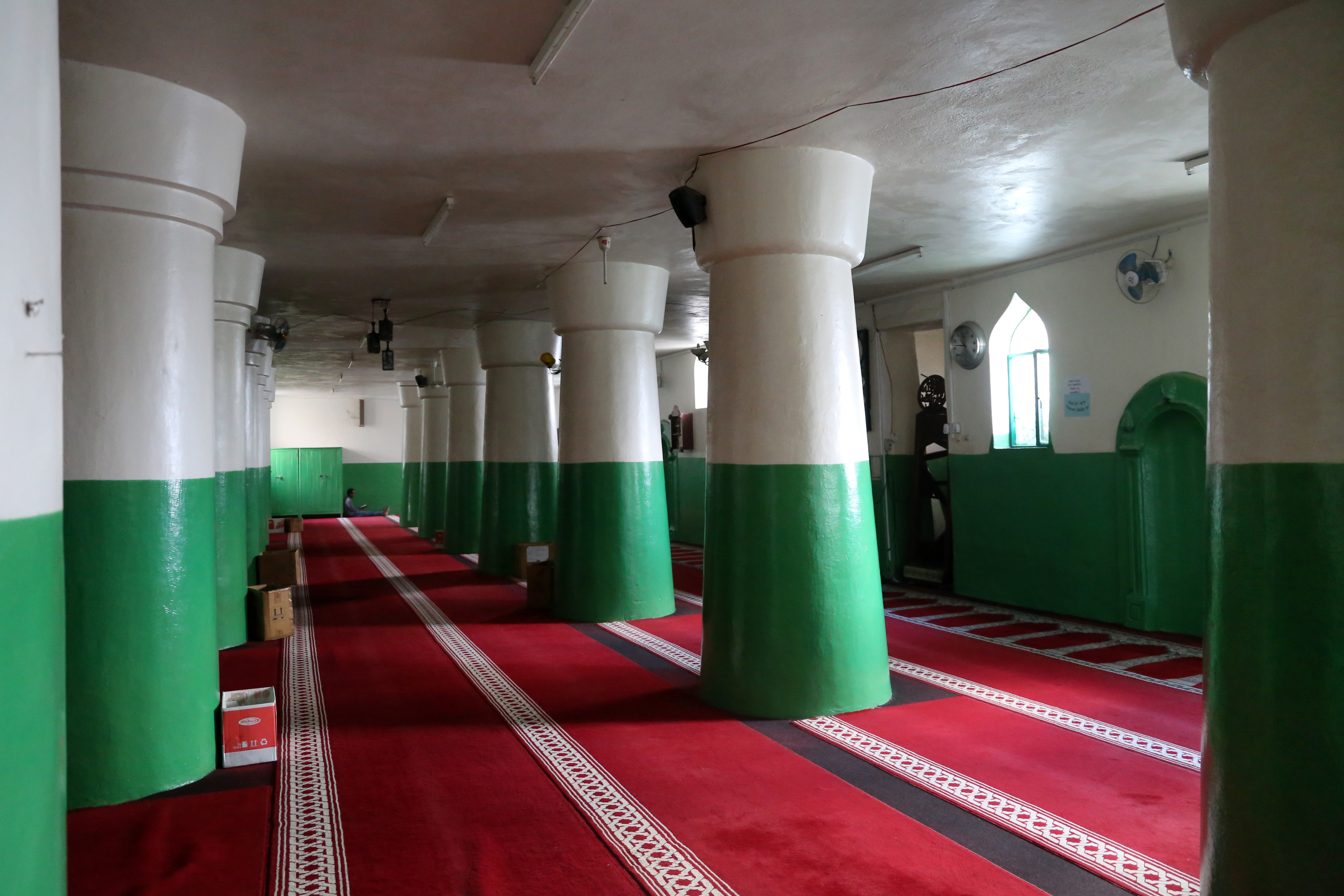 Jamia Mosque in Harar